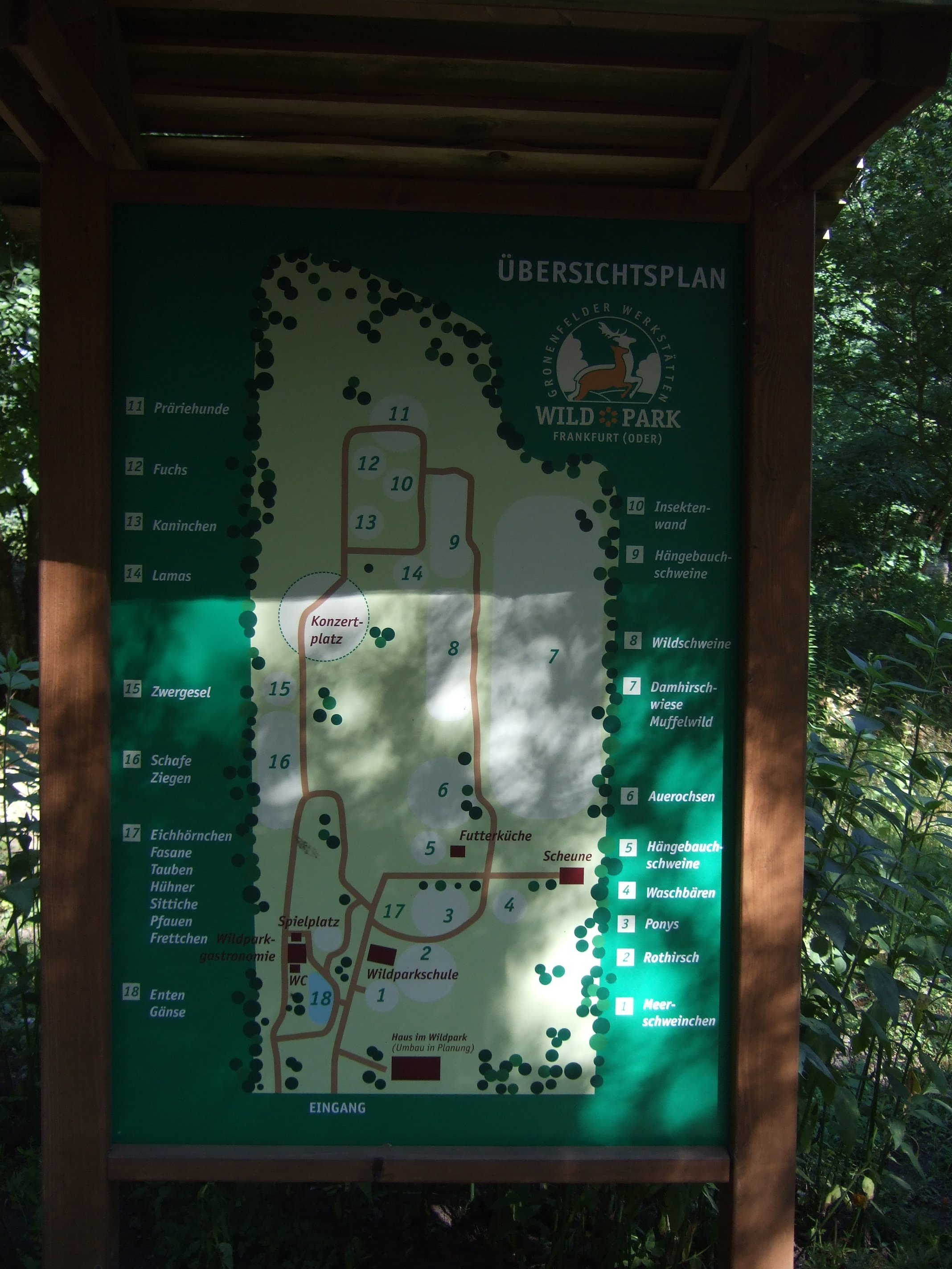 Zoo "Wildpark Frankfurt (Oder)" in Frankfurt (Oder), Germany. Plan.